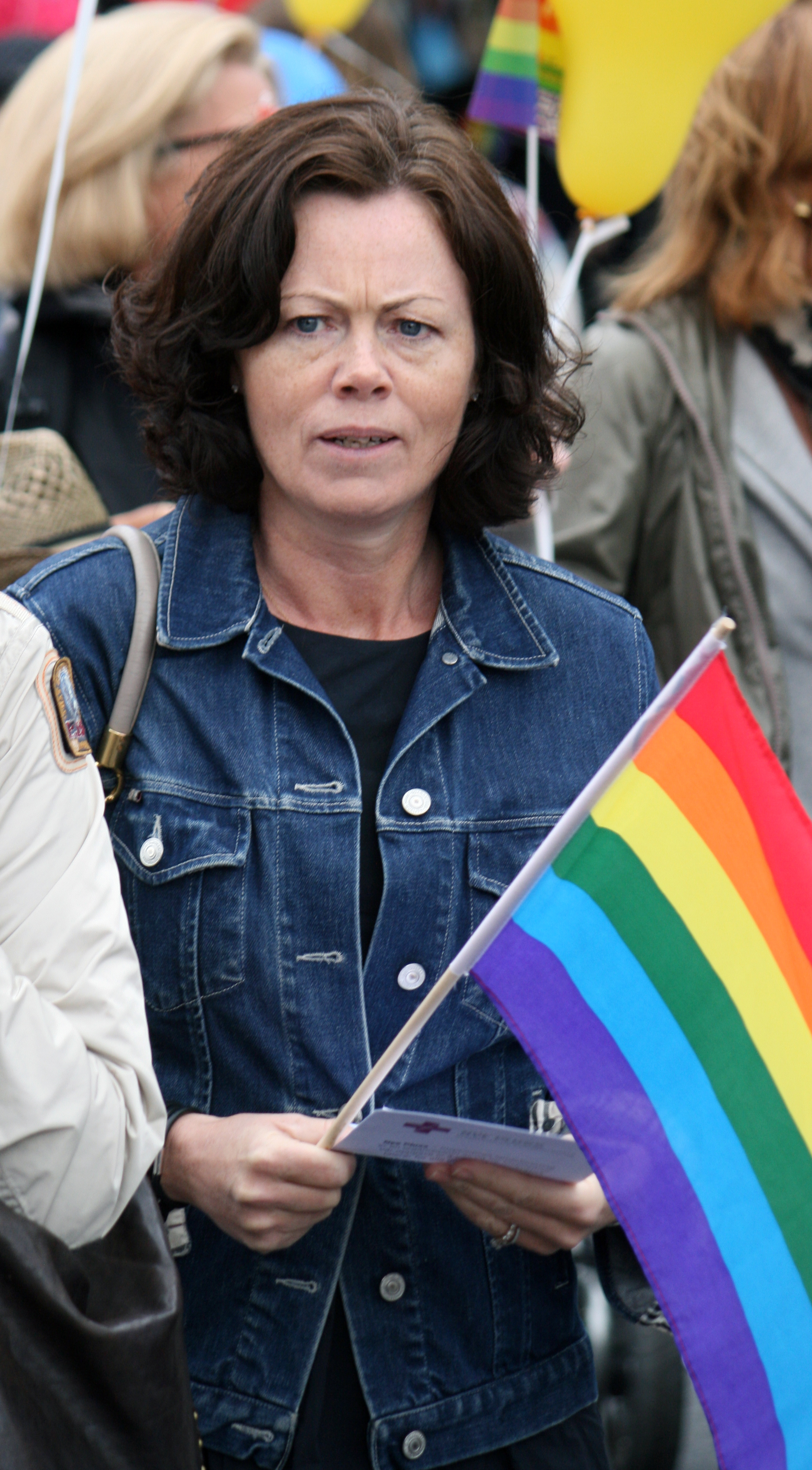 Norwegian minister of children, equality and social inclusion Solveig Horne of the Progress Party taking part in the Europride 2014 parade in Oslo.